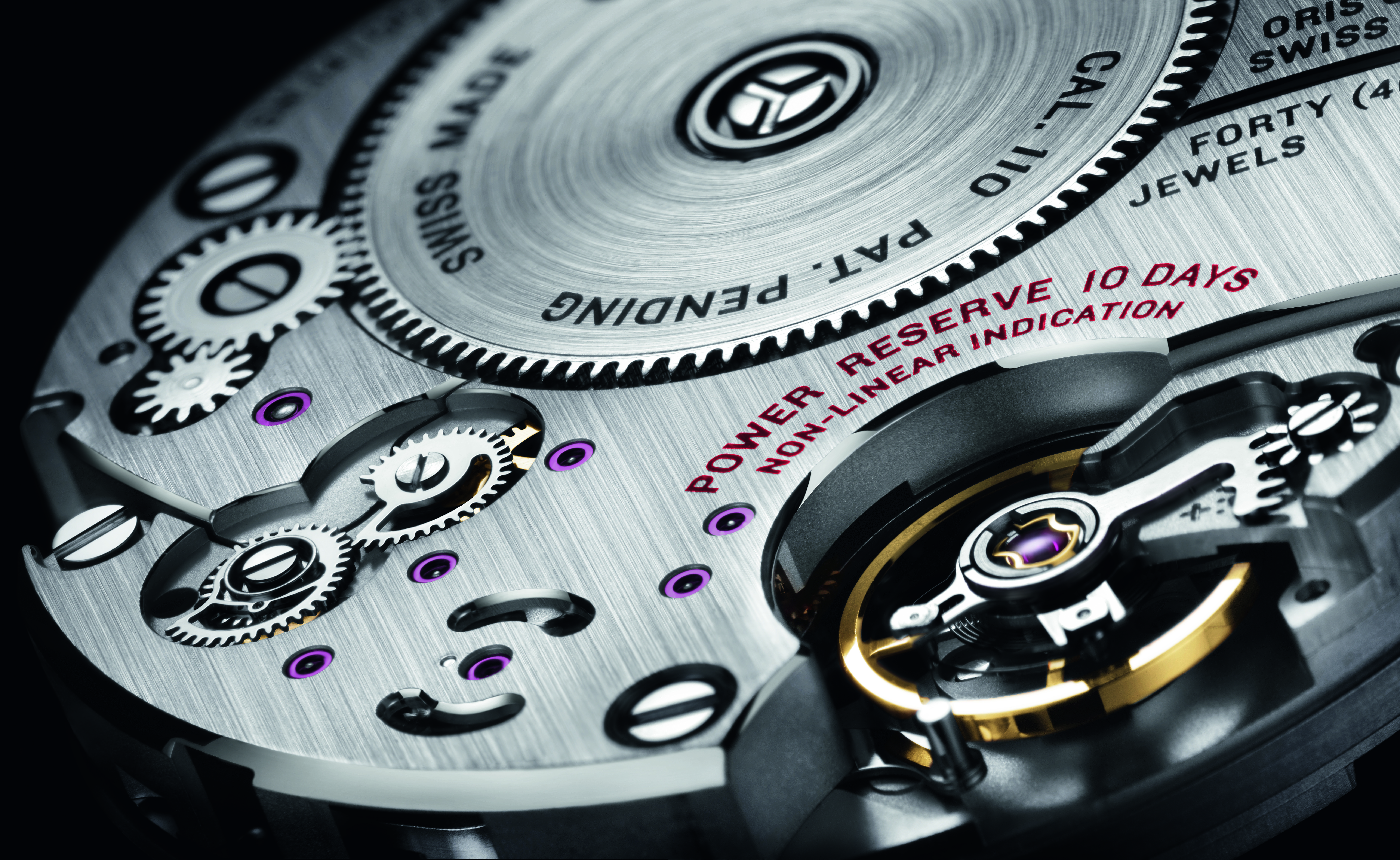 Oris in-house movement calibre 110, introduced in 2014 celebrating Oris's 110th anniversary. Calibre 110 Features a 10 day power reserve with a non-linear power reserve indication.